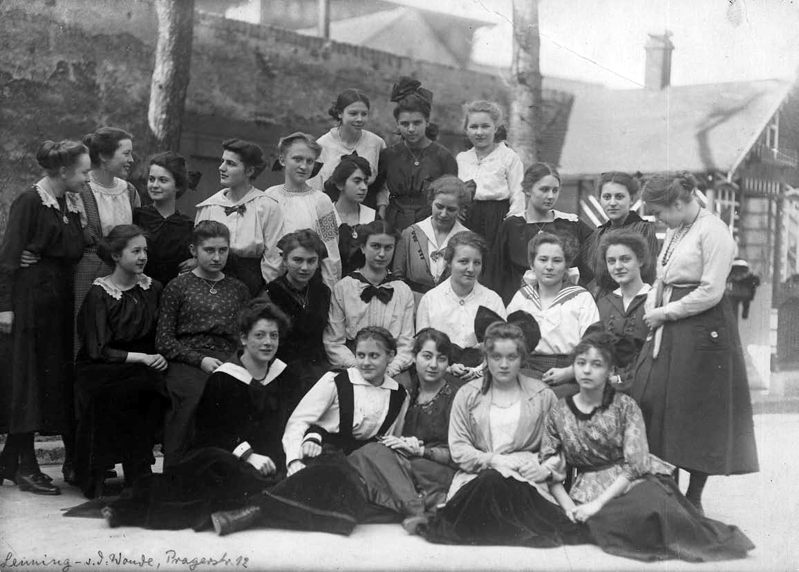 A class photo showing Marlene Dietrich in 1918. She is second from right in the front row.